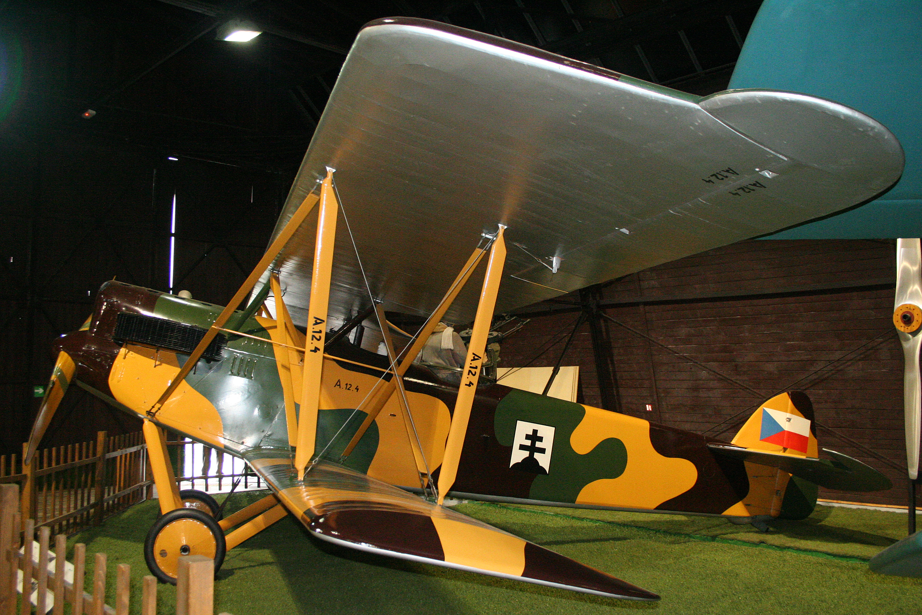 High quality replica A.12. On display in the 1925-1938 hangar. Kbely Museum, Czech Republic. 07-10-2012